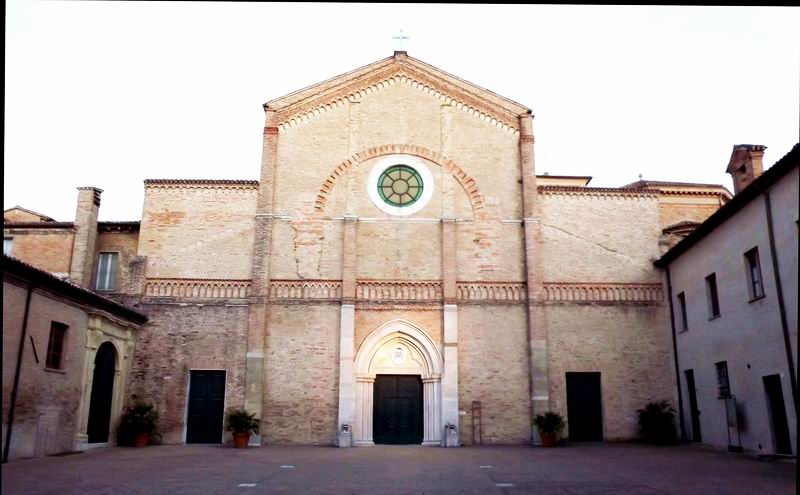 The Dome of Pesaro